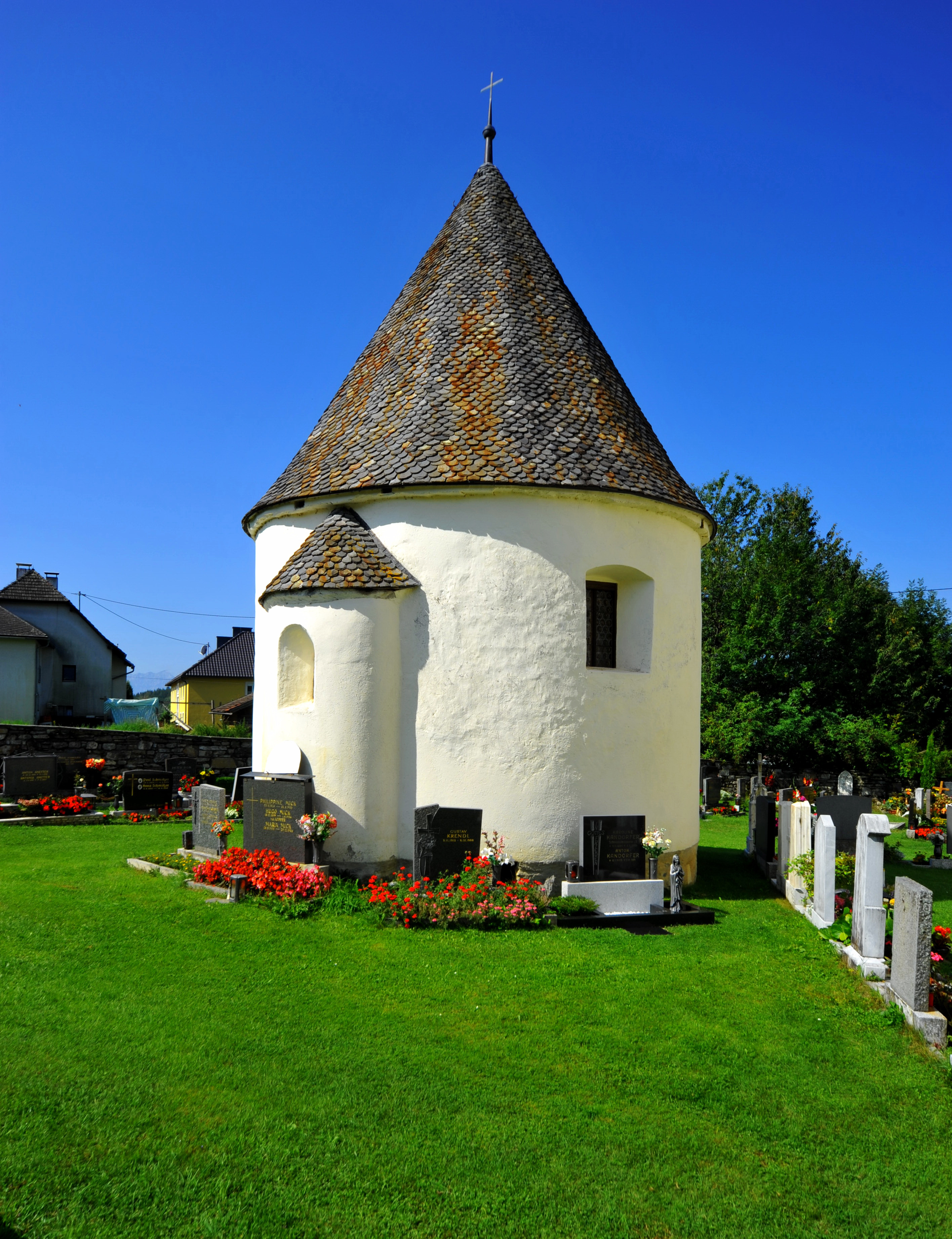 Romanesque charnel house at the cemetery in Tigring, market town Moosburg, district Klagenfurt Land, Carinthia, Austria, EU